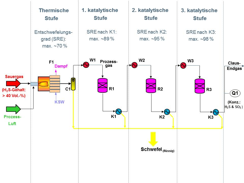 Flow diagramm of a Claus plant for sulfur production.